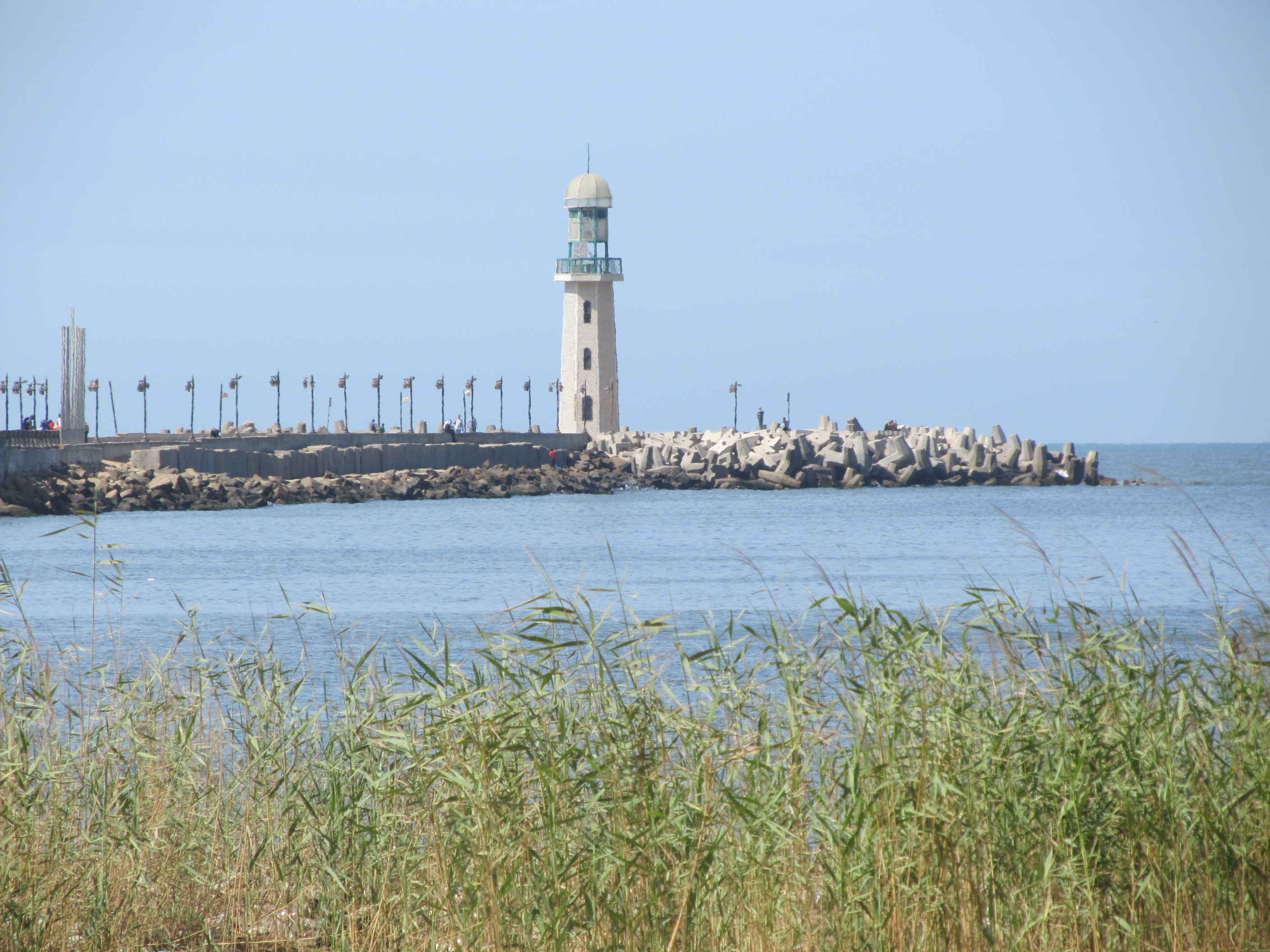 From south of the Ezbat El borg Village